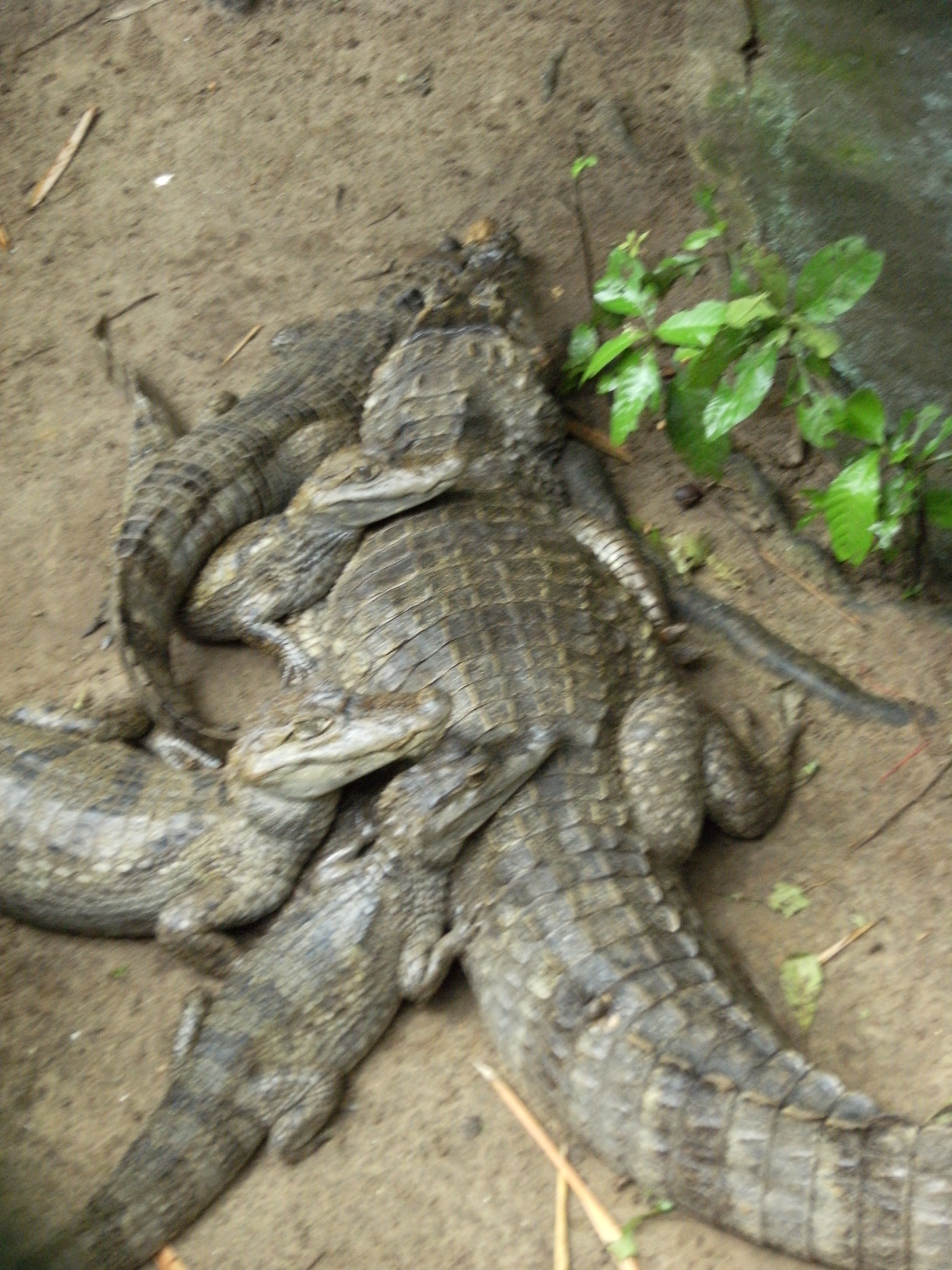 Alligators Paramaribo zoo.